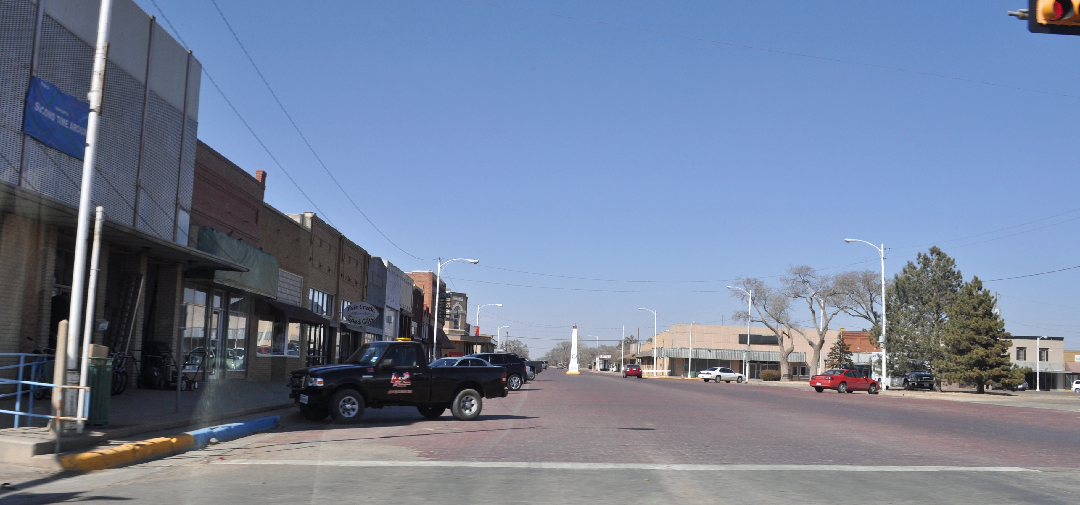 Downtown Tulia, Texas looking north onto Maxwell Avenue from 2nd Street (Texas state highway 86).